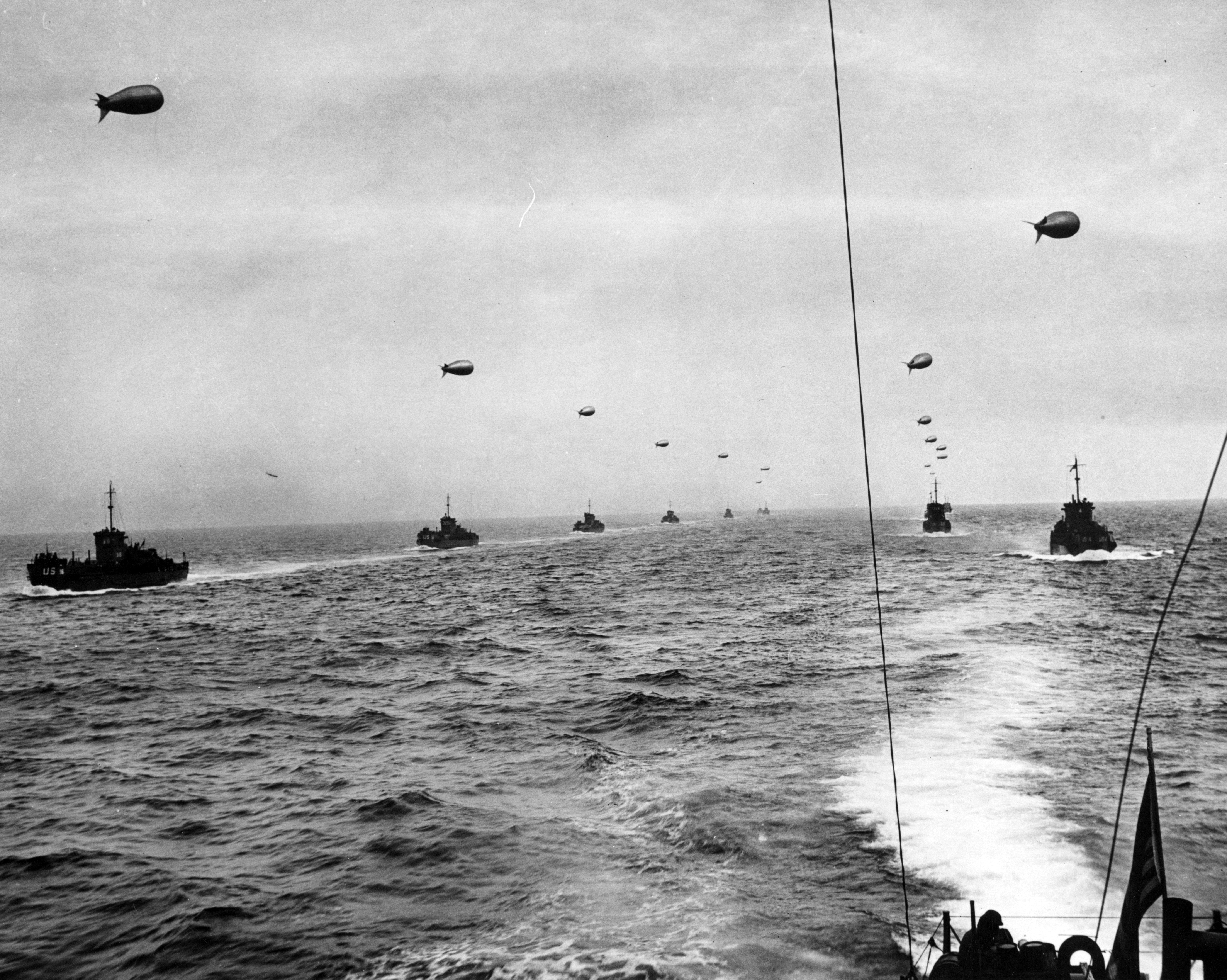 Normandy Invasion, June 1944 A convoy of Landing Craft Infantry (Large) sails across the English Channel toward the Normandy Invasion beaches on "D-Day", 6 June 1944. Each of these landing craft is towing a barrage balloon for protection against low-flying German aircraft. Among the LCI(L)s present are: LCI(L)-56, at far left; LCI(L)-325; and LCI(L)-4.